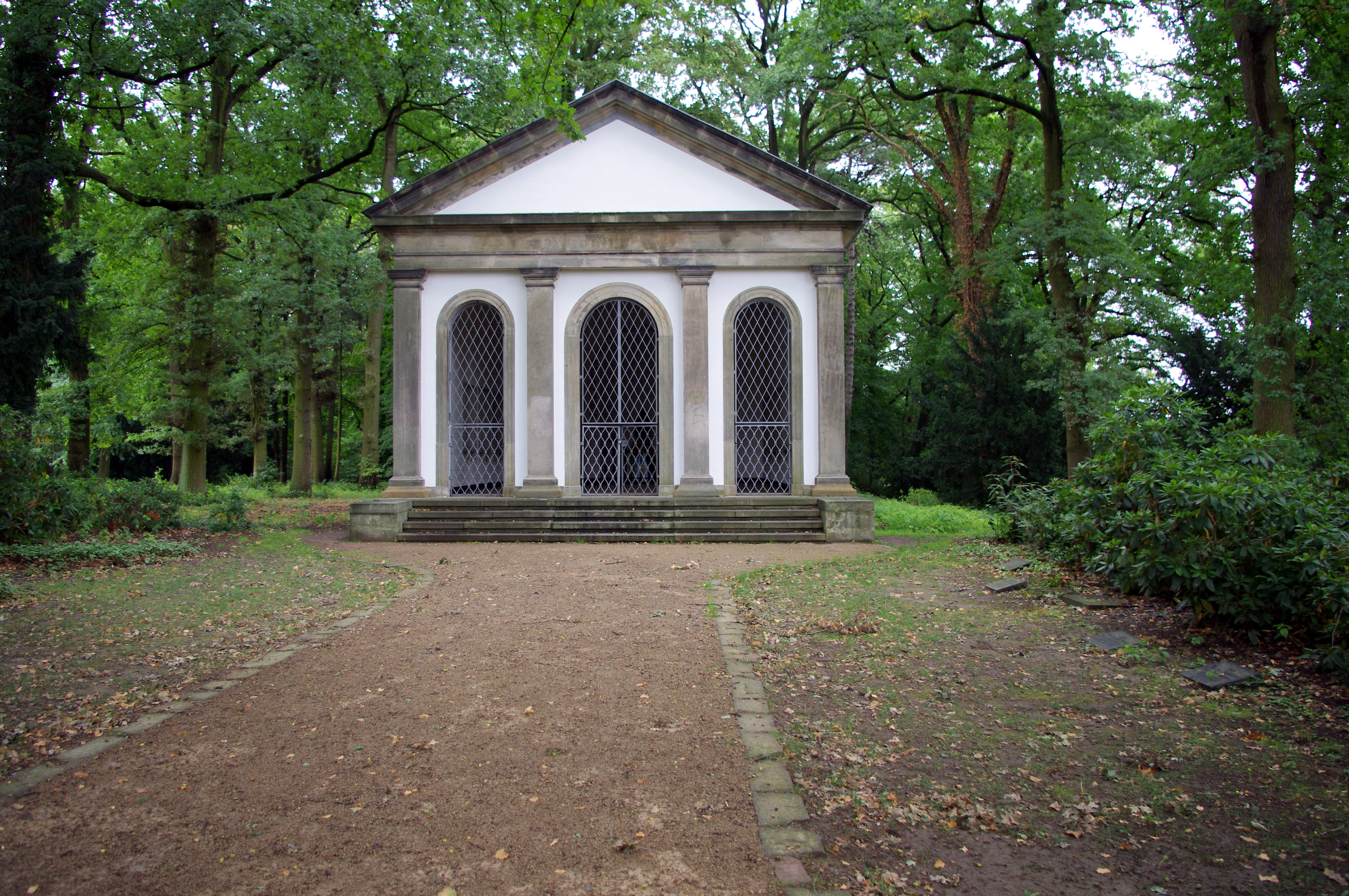 Building in Park of Schloss Stietencron, Bad Salzuflen-Schoetmar, Germany